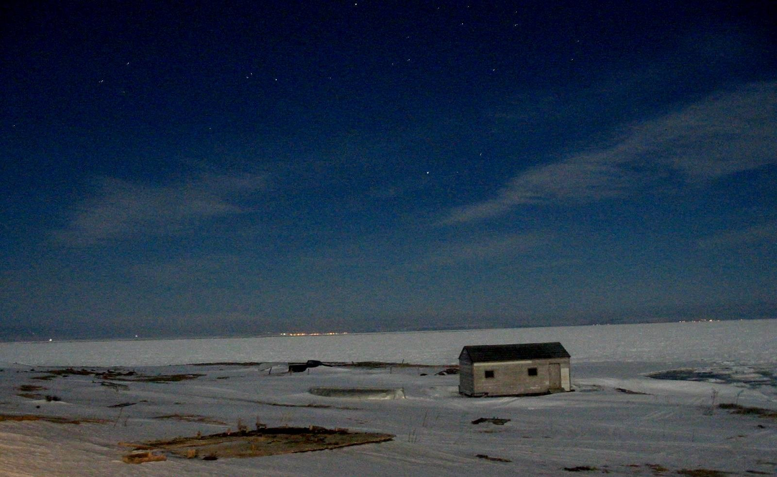 This photo was taken by me on 24 Mar 05 at 2225h NST. Camera: Canon PowerShot A40.